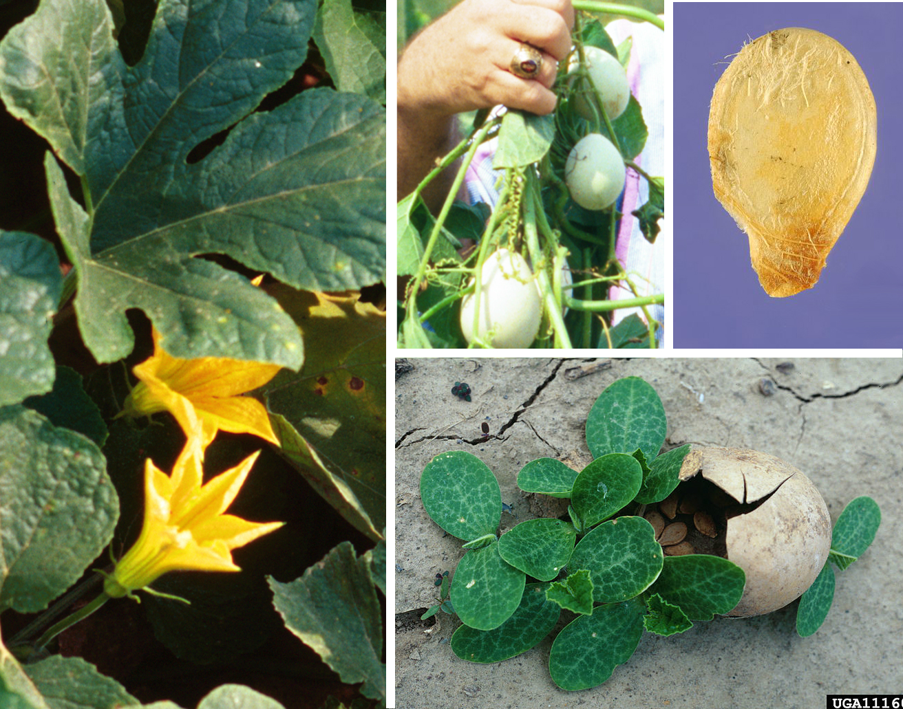 Cucurbita texana montage: leaf, masculine flowers, fruits, seed, seedlings.